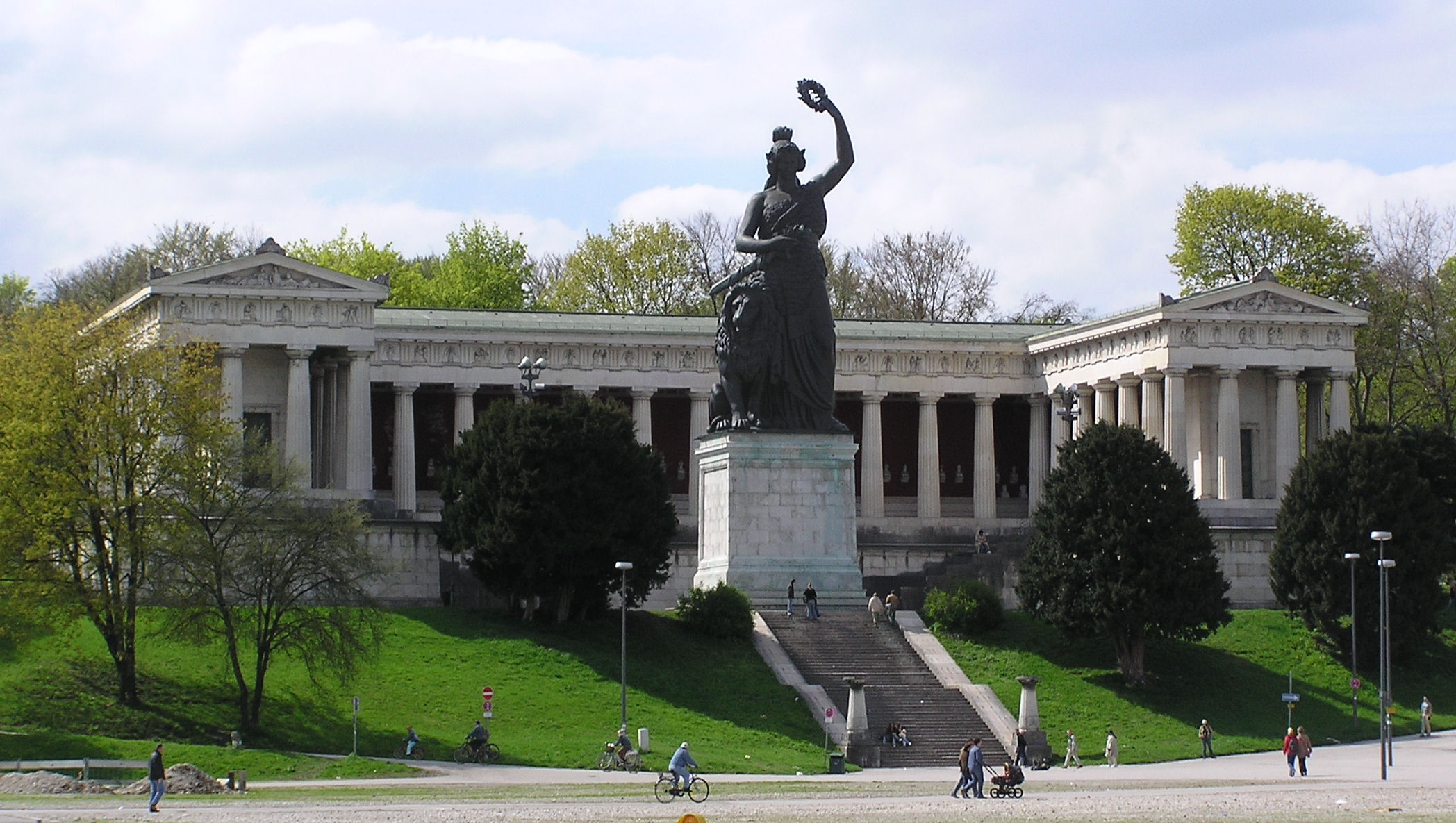 Bavaria and the whole ensemble with Ruhmeshalle in background picture taken by myself R. Pirkner 2006